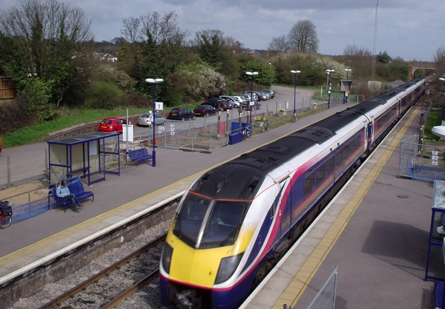 A First Great Western Class 180 DMU at Radley railway station in Oxfordshire.